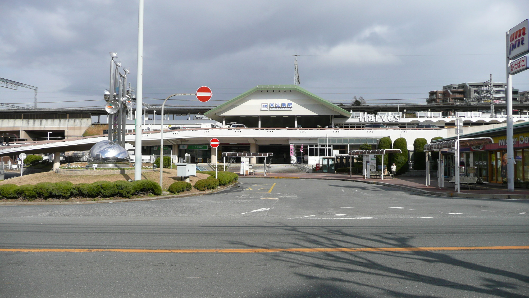 Kinki Nippon Railway,Nara Line,Higashi-Ikoma Station.